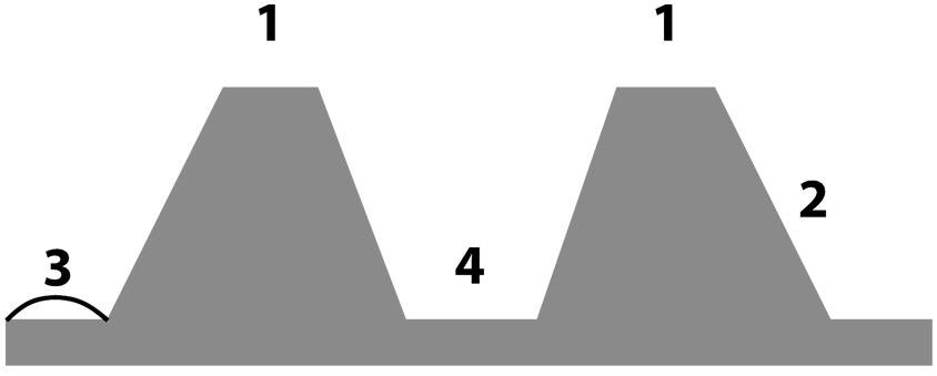 The face of Movable type. the letter face the bevel shoulder counter